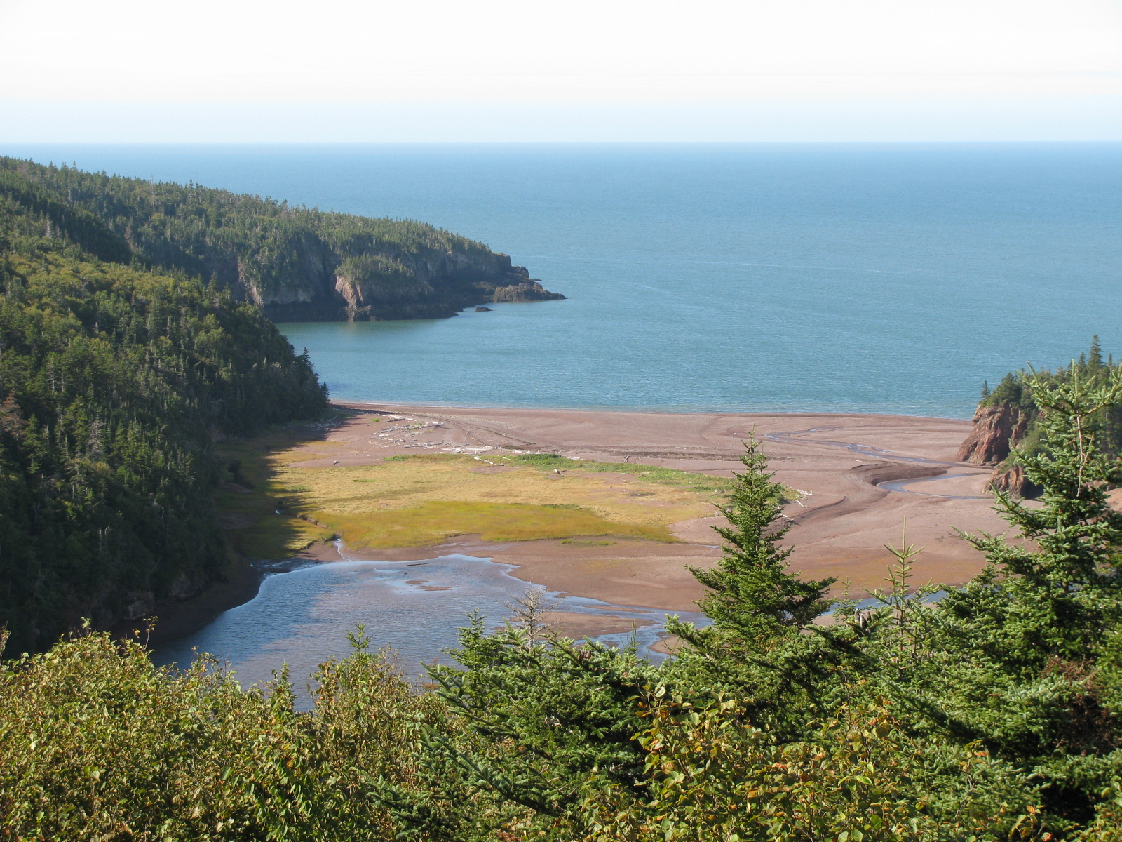 Cape Chignecto Provincial Park as viewed from atop the Eatonville interpretive centre